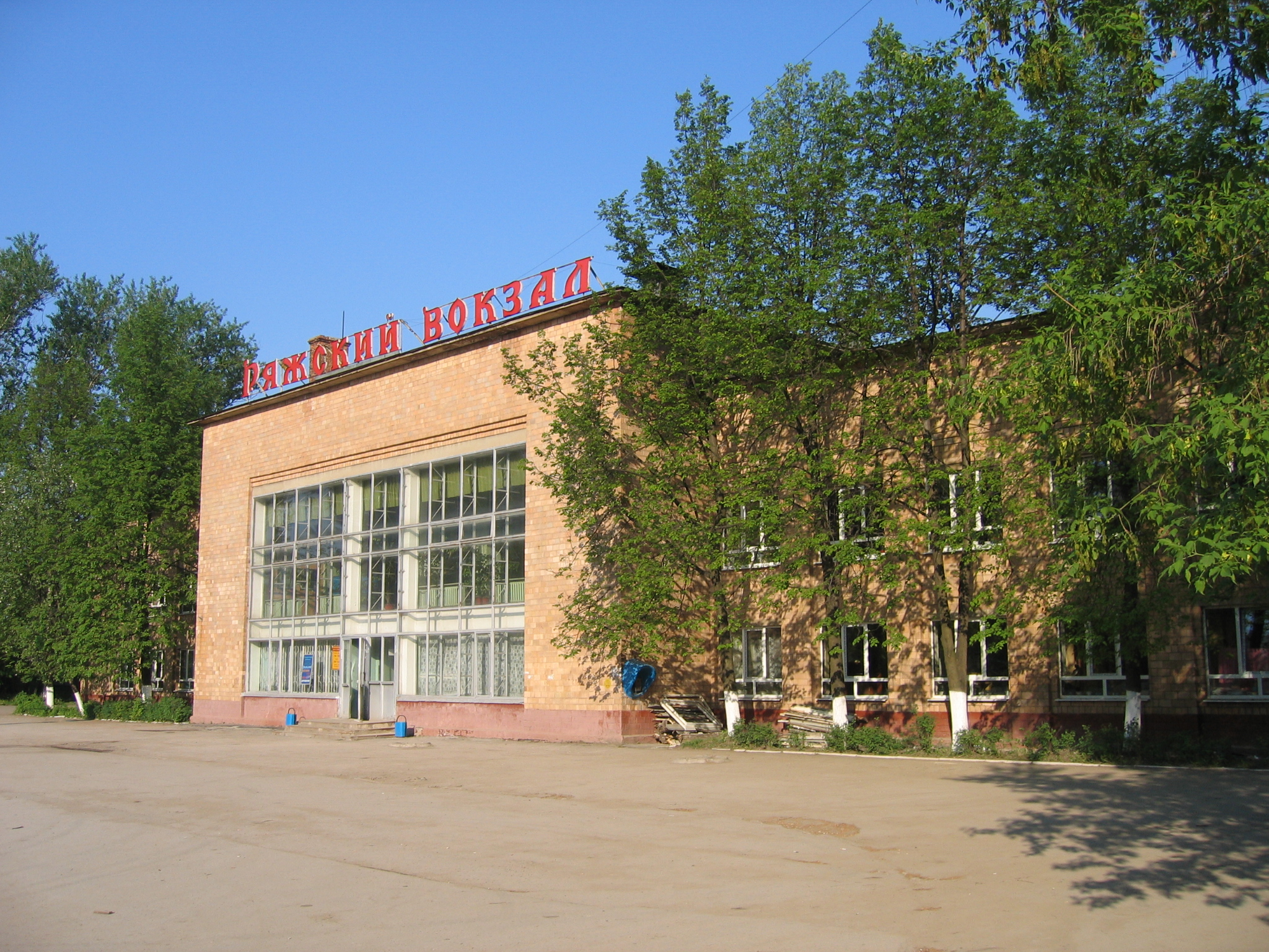 Ryazhsky railway station, Tula, Russia